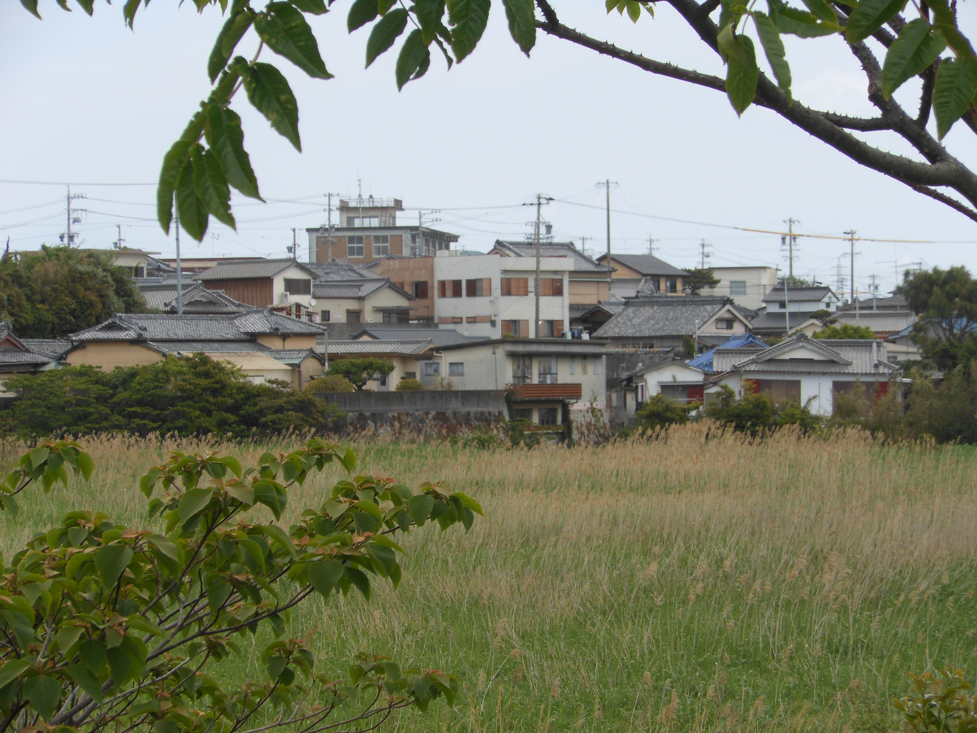 This is a landscape of Shimacho-Fuseda, Shima city, Mie prefecture, Japan.